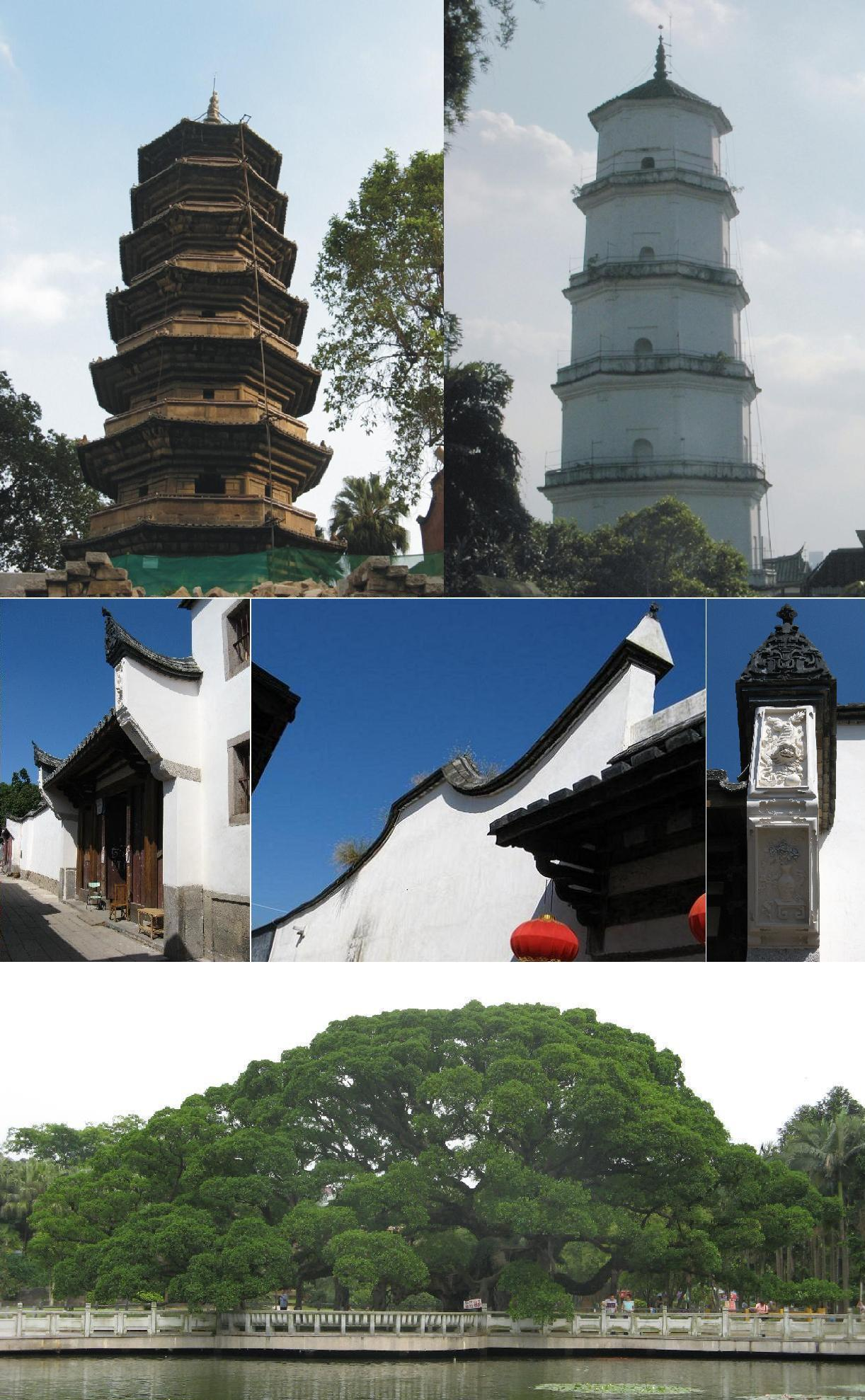 Images, from top, left to right: Black Pagoda of Fuzhou, White Pagoda of Fuzhou; the traditional Foochow-style gate of a mansion, fireproof wall and facade decoration in the Three Lanes and Seven Alleys in Fuzhou; Banyan tree - the symbol of Fuzhou